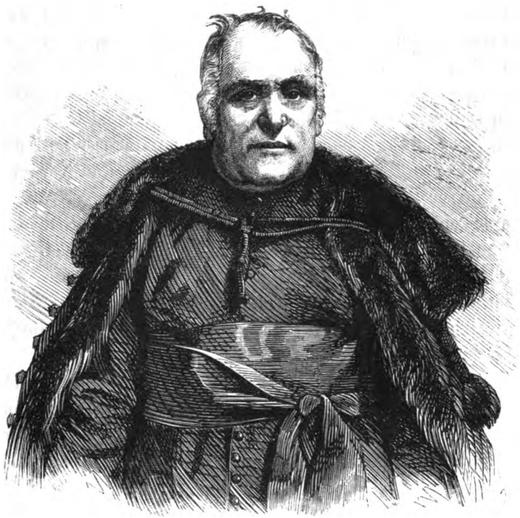 Oleksandr Vasylovych Dukhnovych or Aleksander Duchnovič (1803 – 1865), Priest, poet, writer, pedagogue, and social activist of the Slavic peoples of the Carpathians. He is considered as the awakerner (Rusyn: Будитиль) of the Rusyns Rusyn: Александер Васильєвич Духновіч (24. апріля 1803, Тополя – 30. марца 1865, Пряшів) — русиньскый поет, писатель, теоретік, етноґраф, публіціст, выдаватель, ґрекокатолицькый священик